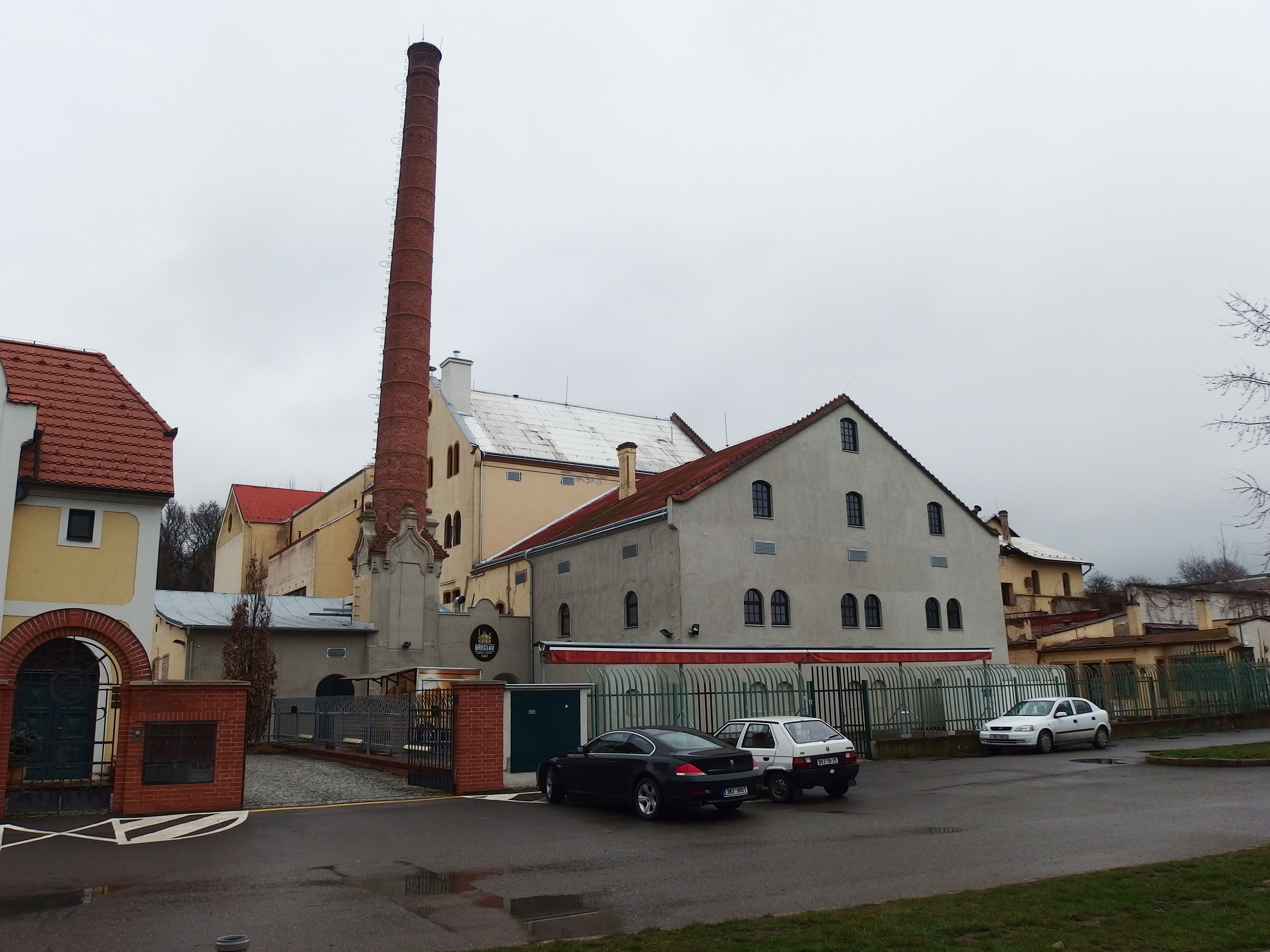 Břeclav, Czech Republic.